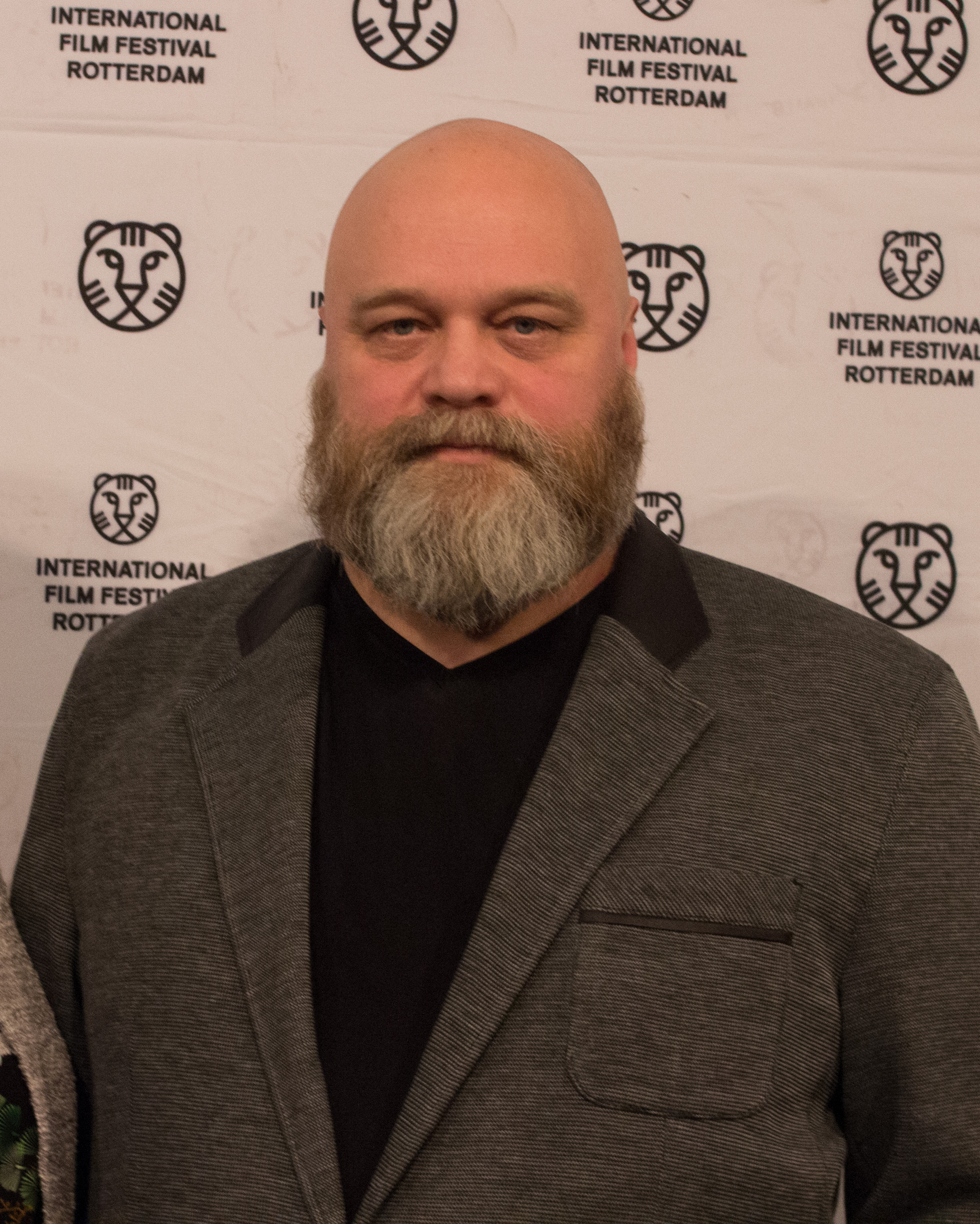 Alexey Fedorchenko at the premier of Anna's War during the International Film Festival Rotterdam 2018